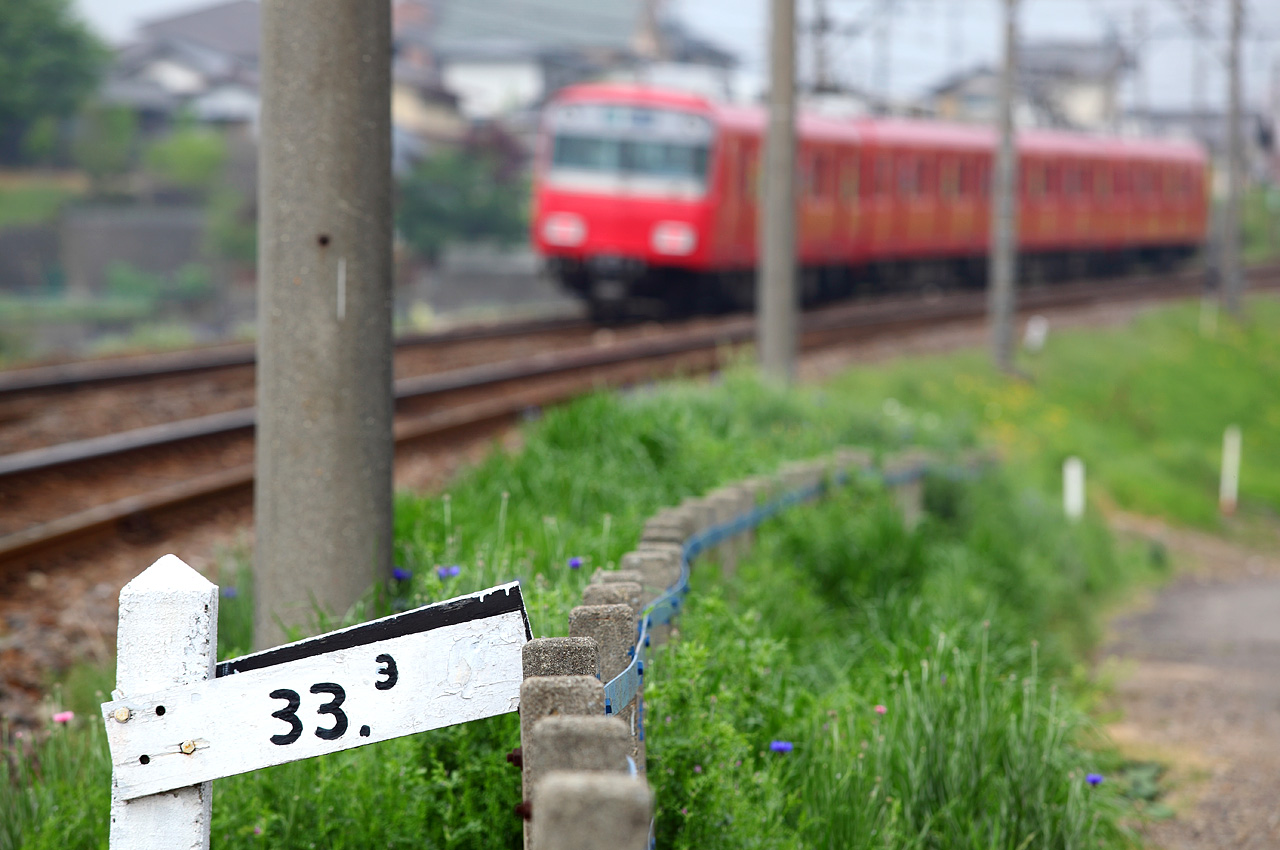 A gradient post between Unumajuku and Haba railway stations on the Meitetsu Kakamigahara Line